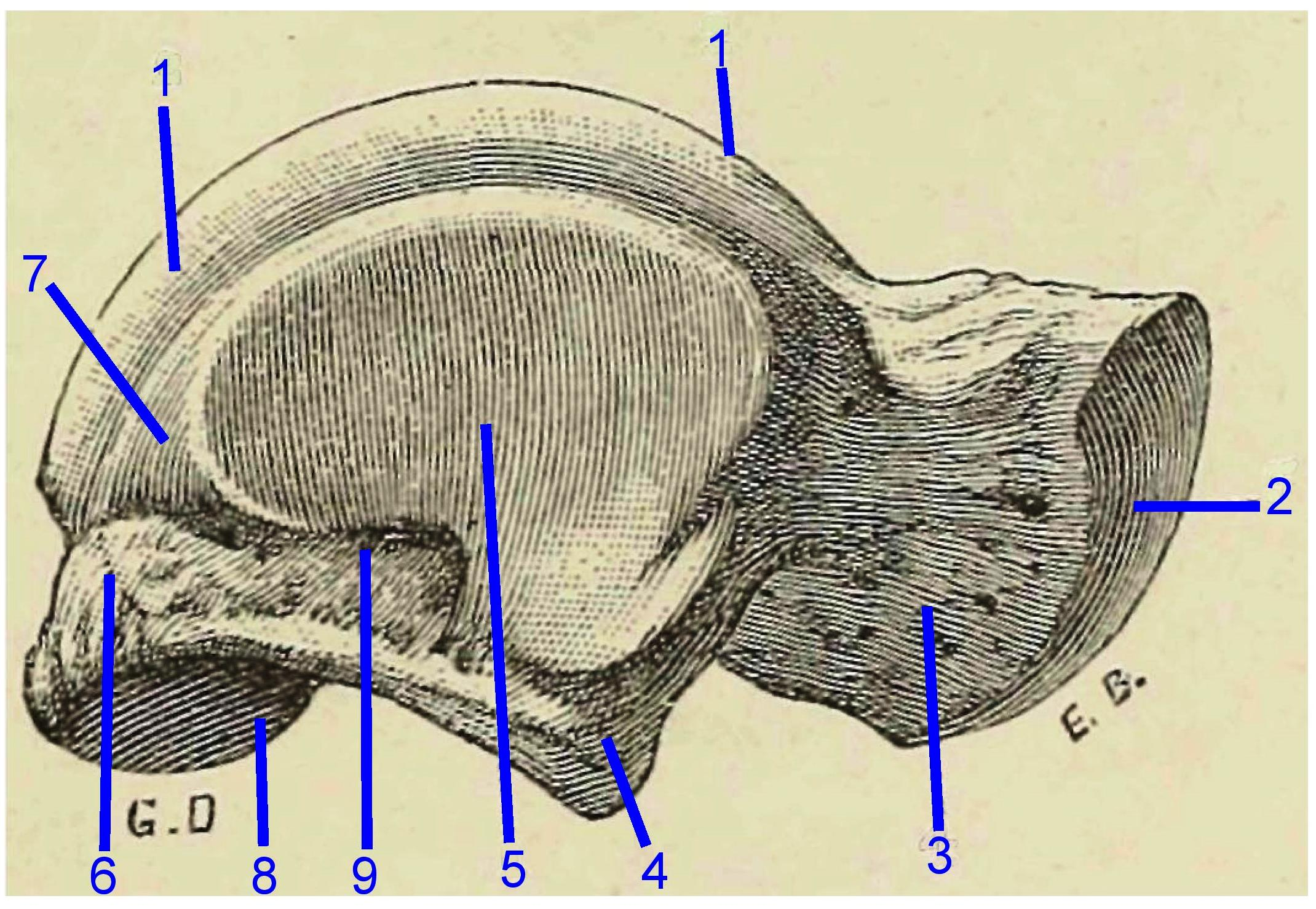 Talus, lateral face Testut